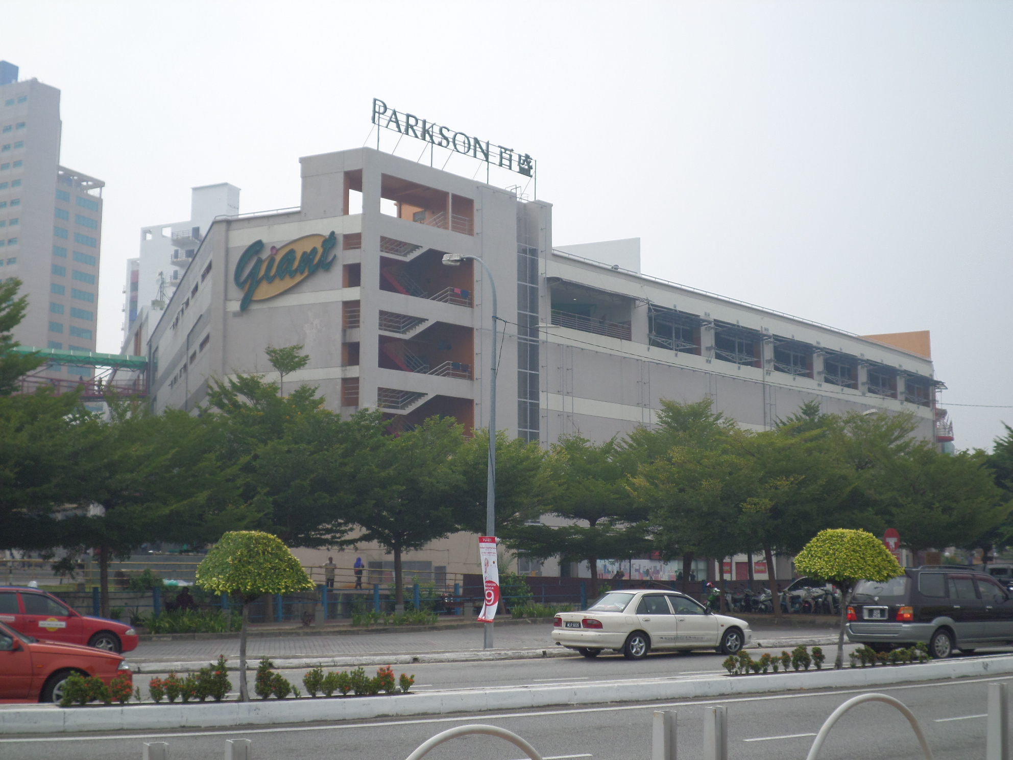 Terminal 1 Shopping Center, Seremban, Negeri Sembilan, Malaysia